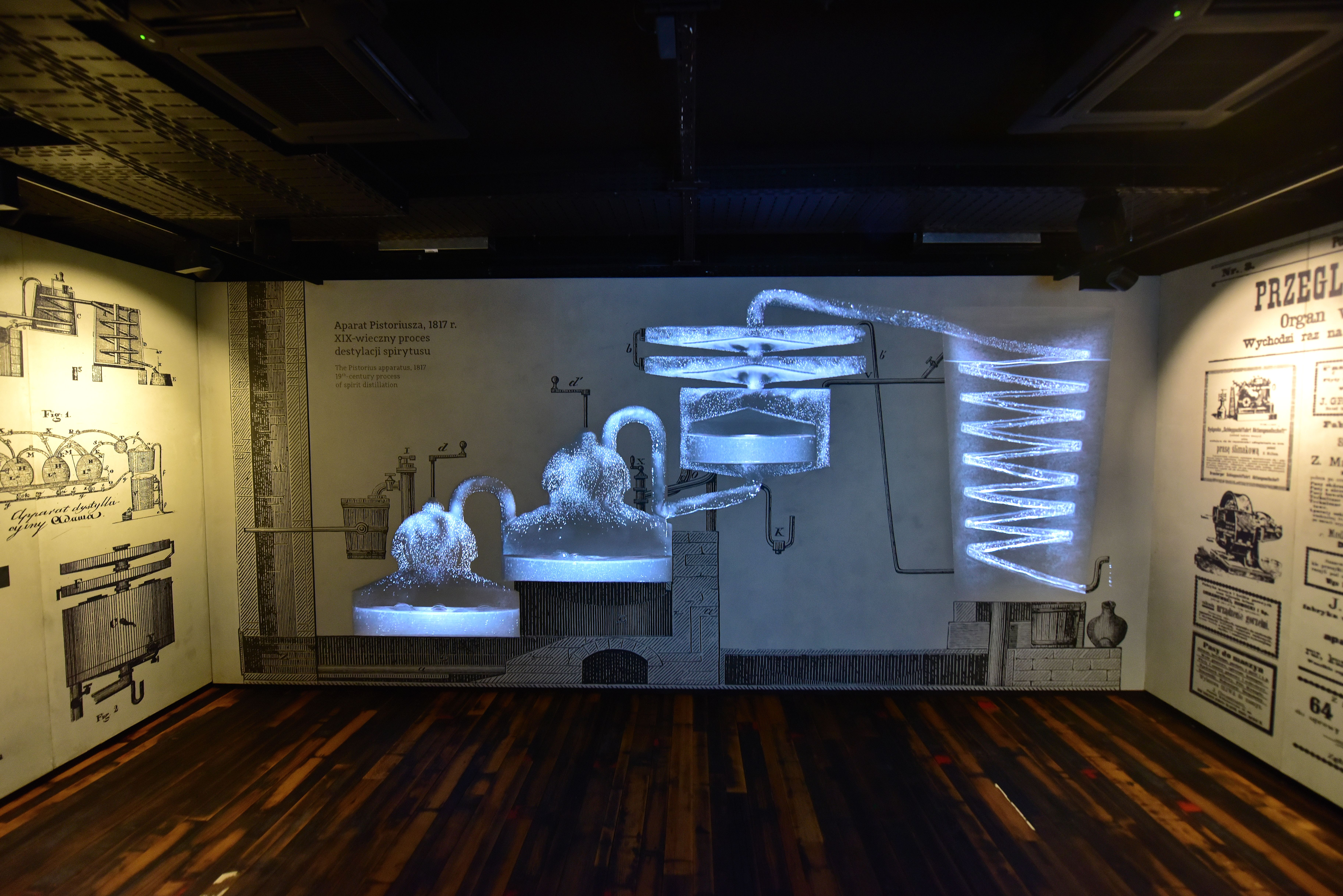 Polish Vodka Museum in Warsaw. Gallery 2